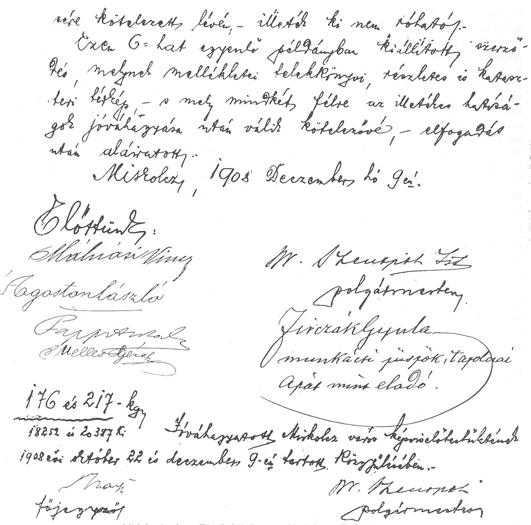 Contract of sale 1908, Miskolc–Görömbölytapolca